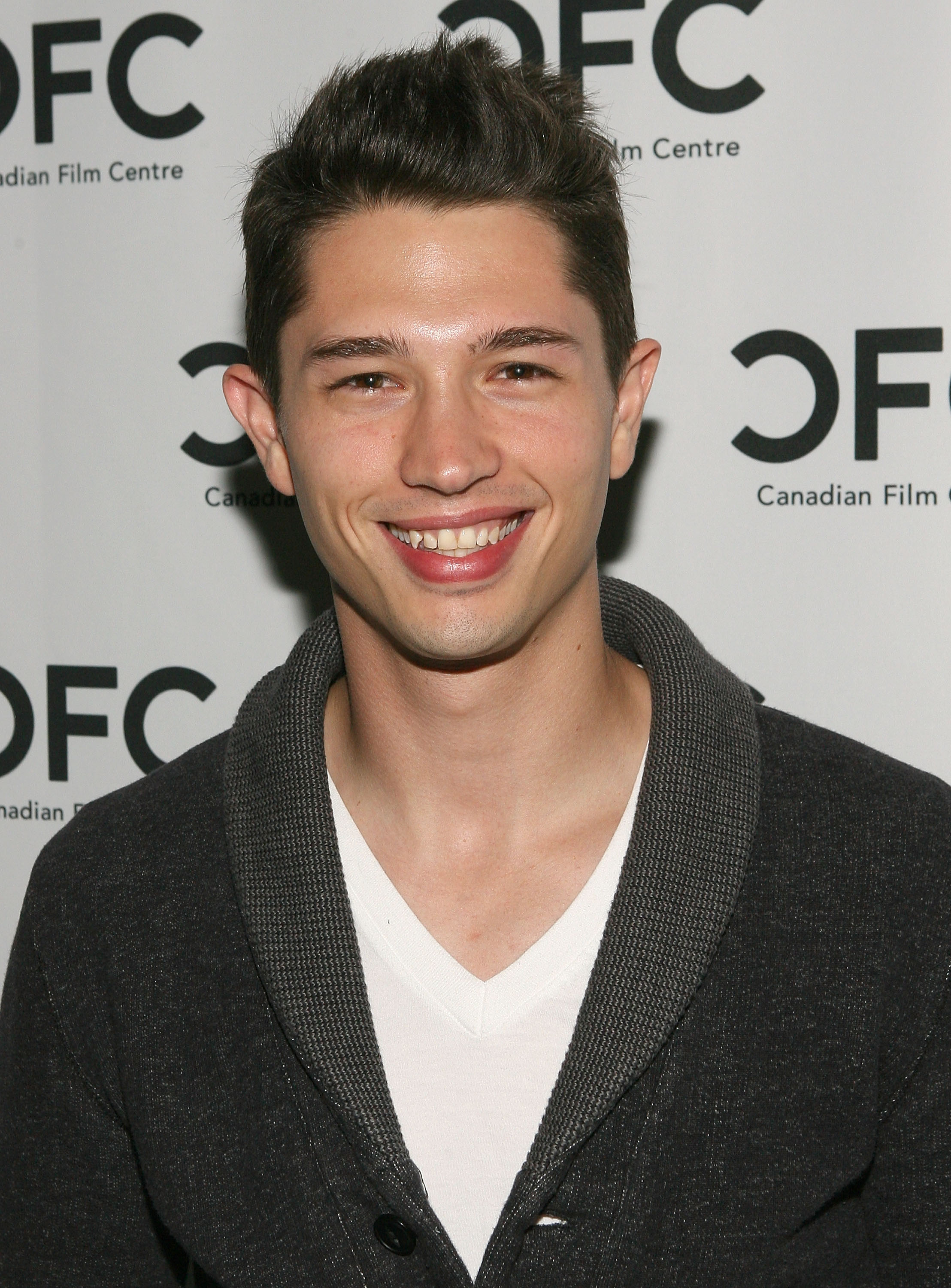 Joe Dinicol